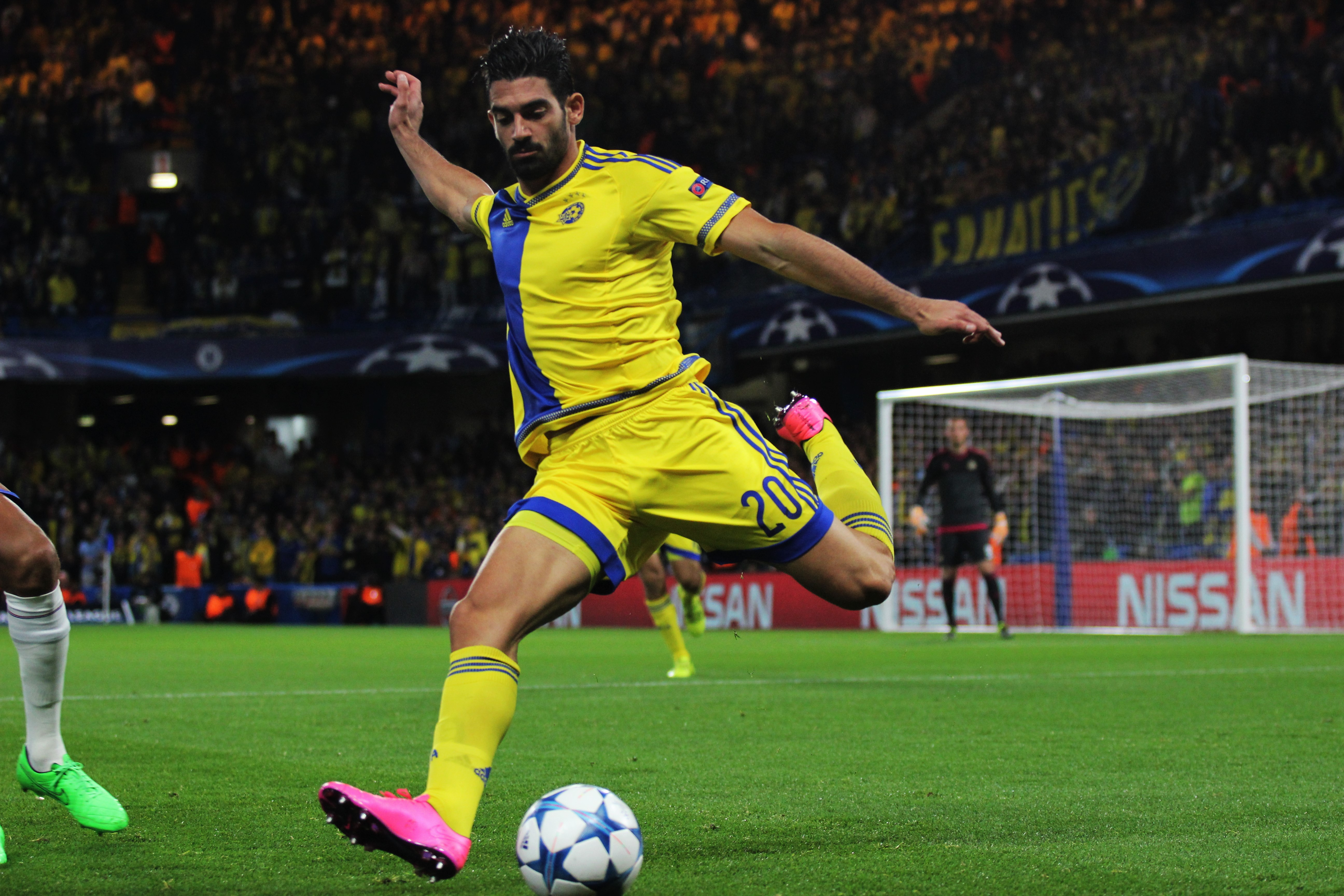 Omri Ben Harush of Maccabi Tel-Aviv prepares to clear the ball during the Champions League game against Chelsea.